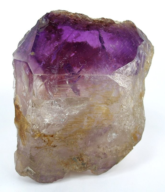 Quartz (Var.: Amethyst) Locality: Rice, Prince Edward County, Virginia, USA (Locality at ) Size: 8.1 x 7.2 x 3.6 cm. An interesting and attractive deeply-colored locality piece, though honestly it has severe damage on the right hand side and some dings elsewhere. Ex. Richard Hauck Collection.